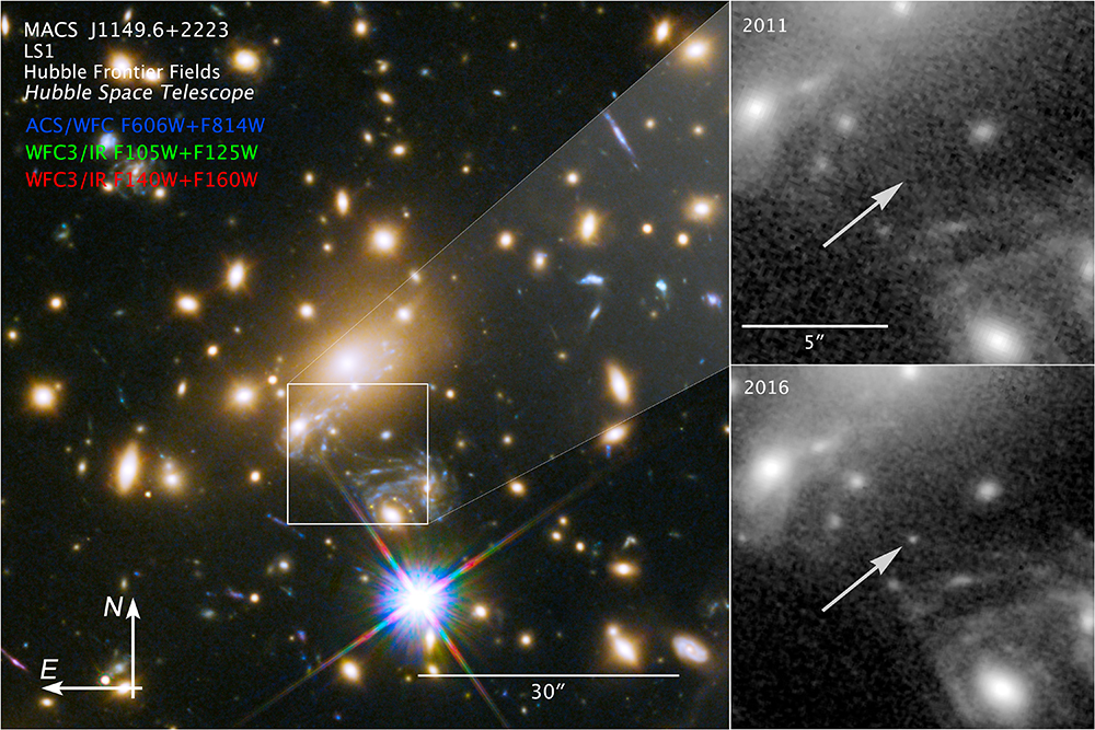 Detection of Star Icarus (formally, MACS J1149 Lensed Star 1) A massive cluster (left) magnified a distant star more than 2,000 times, making it visible from Earth (lower right) even though it is 9 billion light years away, far too distant to be seen individually with current telescopes. It was not visible in 2011 (upper right).